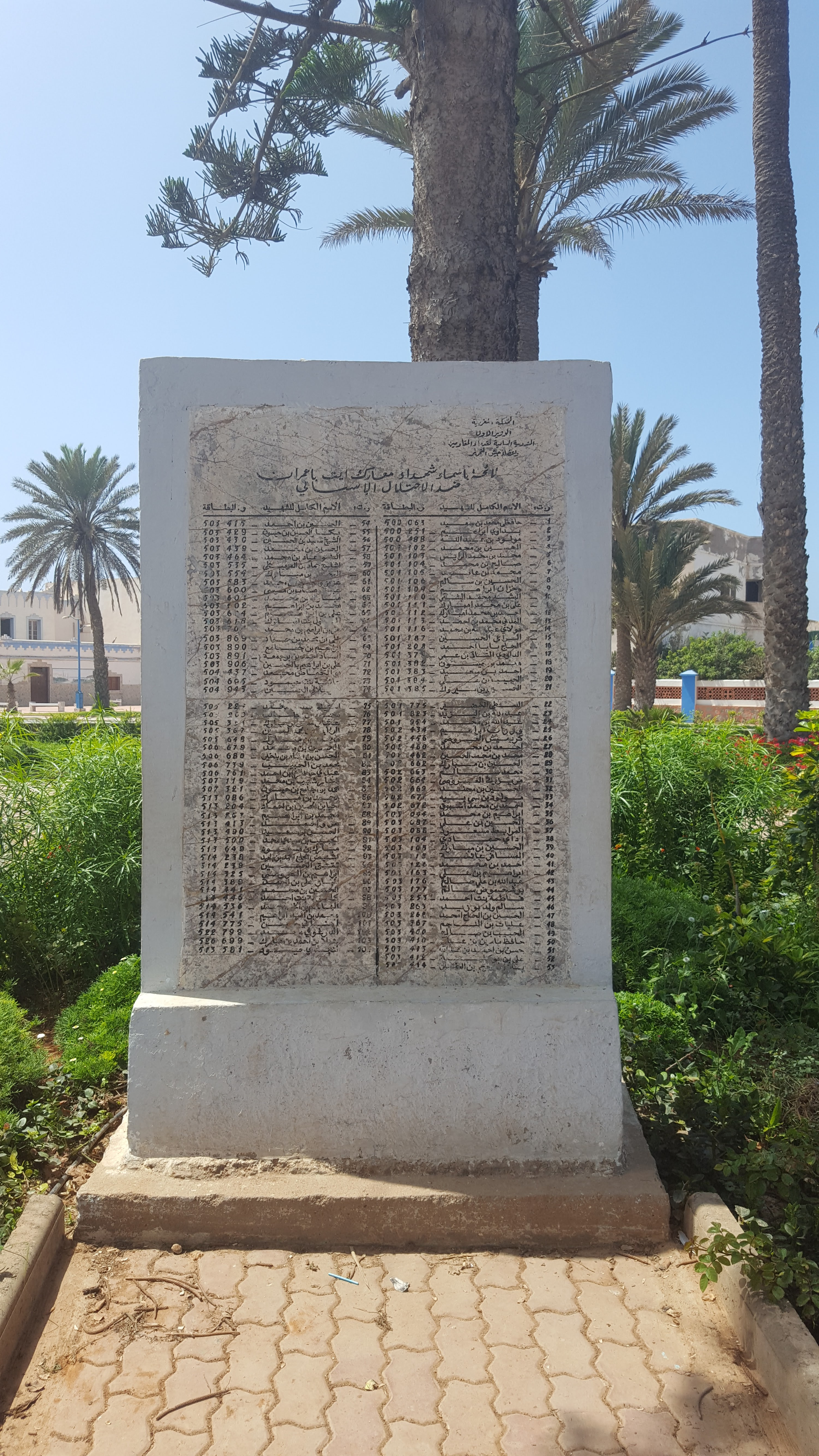 Monument for Martyrs in Sidi Ifni, Morocco